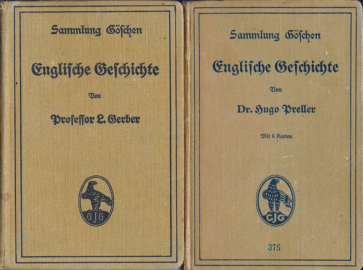 Englische Geschichte (English history), Volume 375 of the Goeschen collection left: edited by Professor Lambert Gerber (1914) right: edited by PhD (Dr.) Hugo Preller (1934)